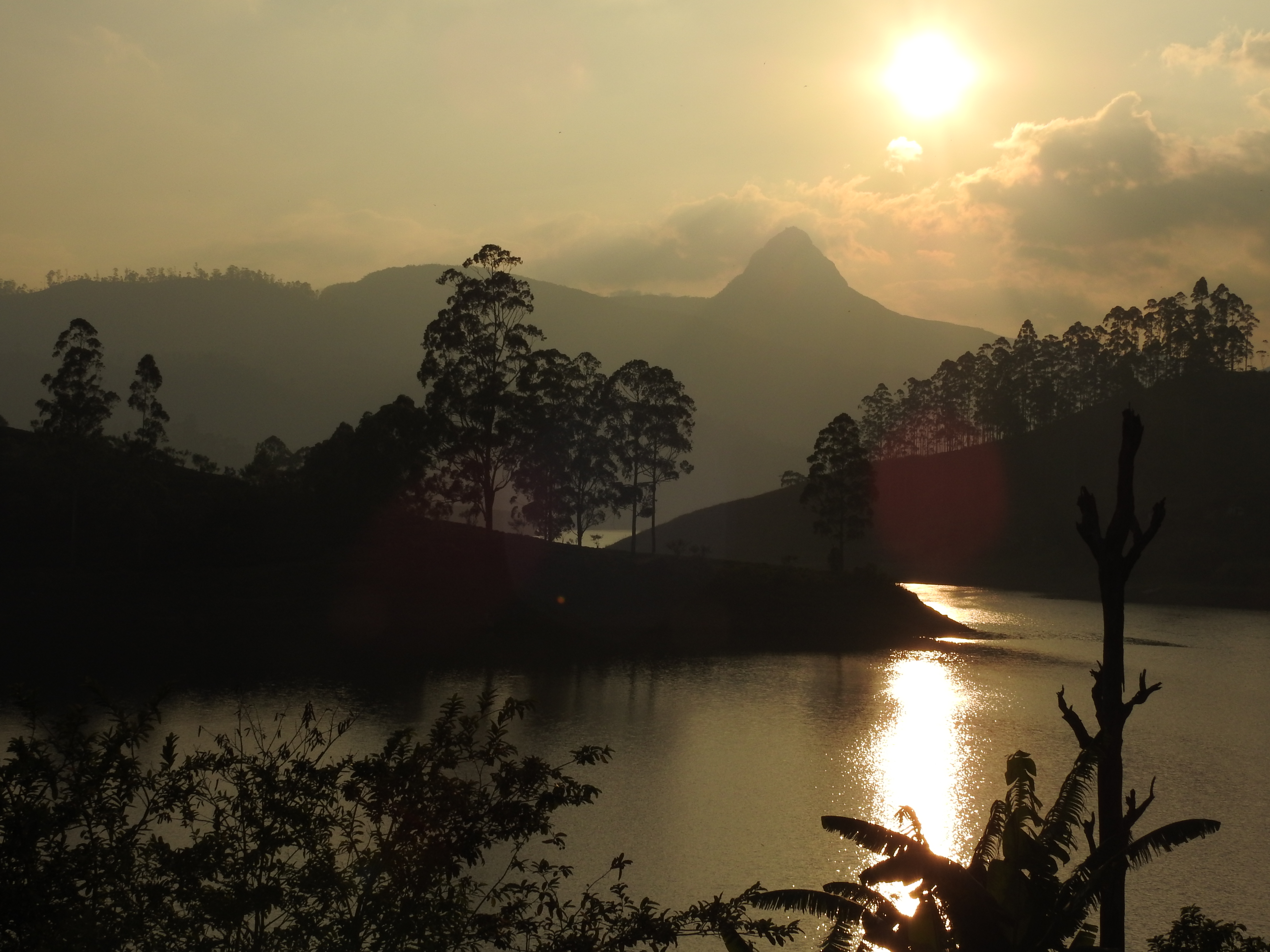 Sunset behind Adam's Peak (Sri Pada), Sri Lanka.